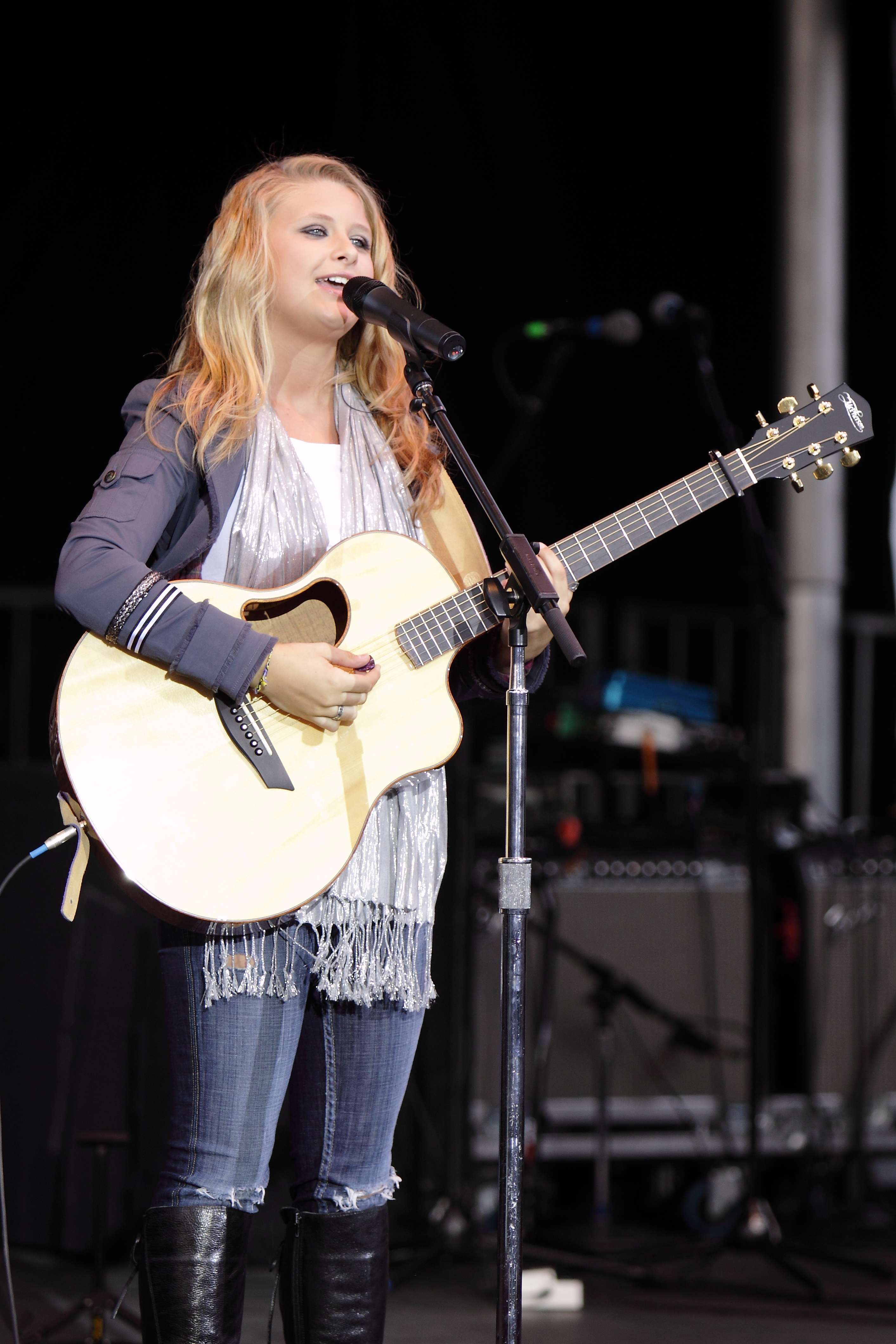 Concert photos from this female singer made famous through Youtube as taken at her performance as part of the "Disney Under the Stars" concert at the Evergreen State Fair in Monroe, WA.